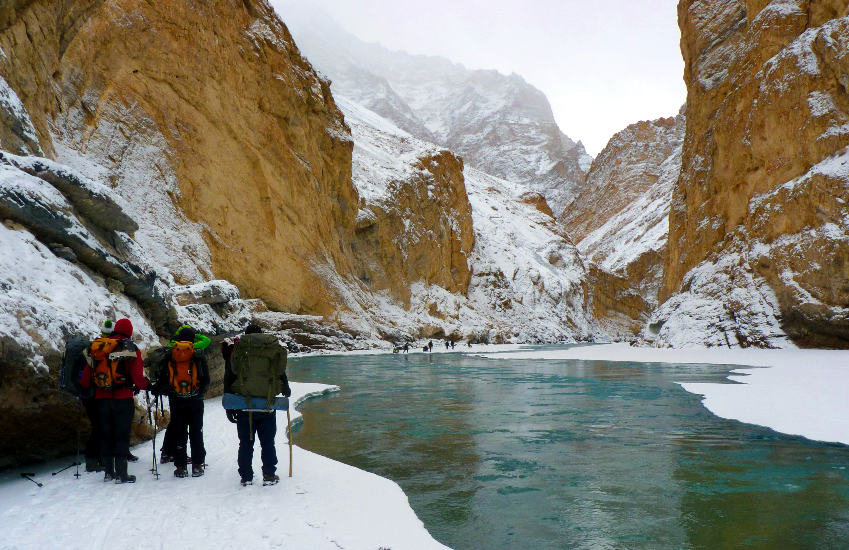 Suspense at Chadar